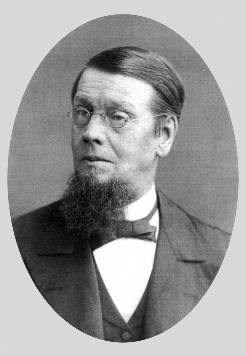 Photo portrait of Karl May